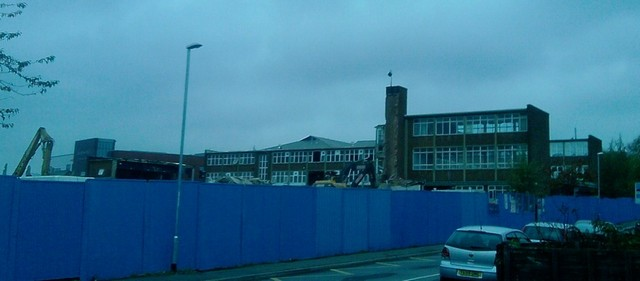 Frontal view of west leeds, showing demolition of buildings. dance studio, humanities corridor, canteen, hall and staircase gone.